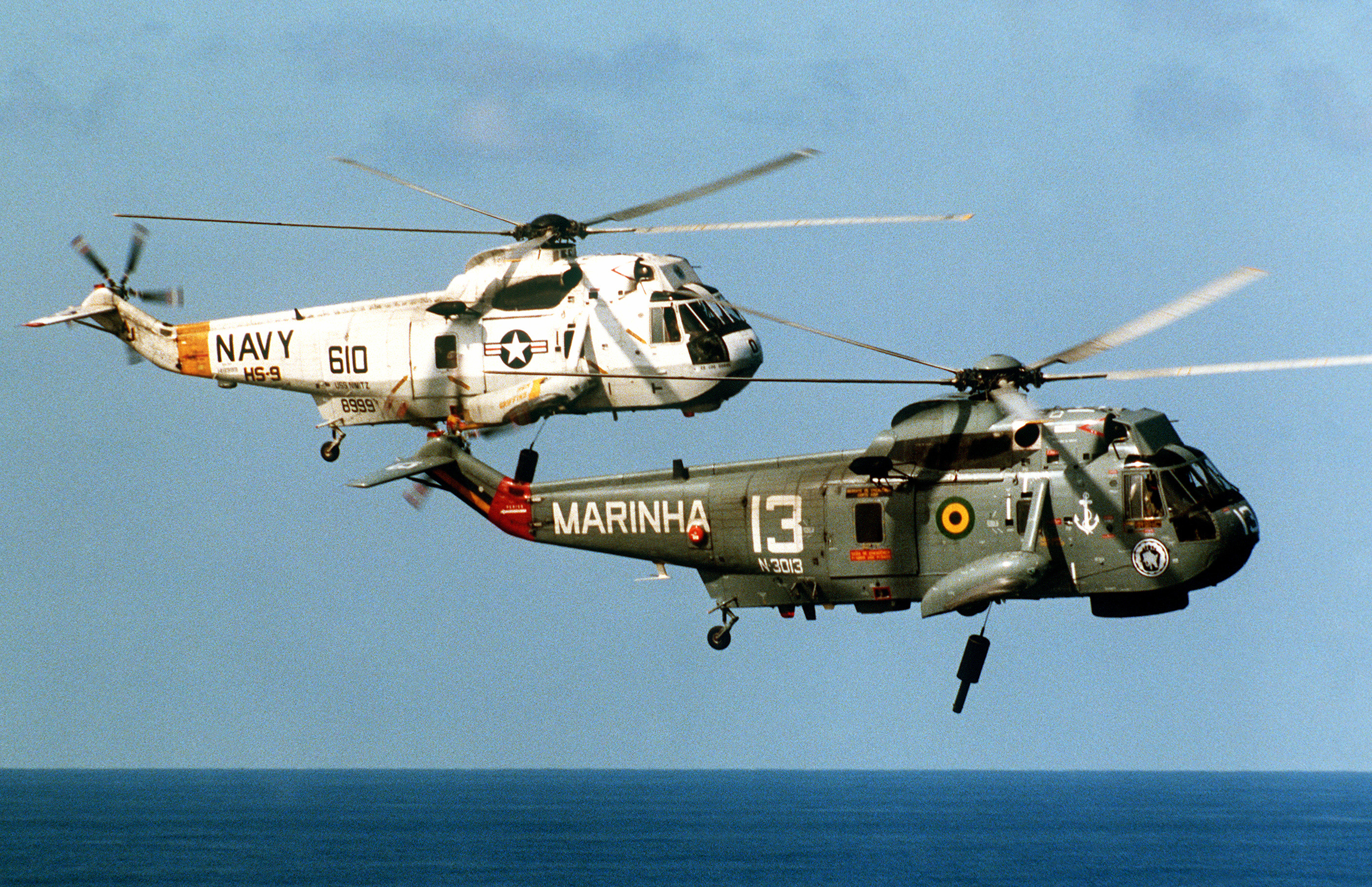 A Sikorsky SH-3H Sea King helicopter from the U.S. Navy helicopter anti-submarine squadron HS-9 Sea Griffins (of Carrier Air Wing Eight (CVW-8), assigned to the USS Nimitz (CVN-68))and a Sikorsky/Agusta SH-3 Sea King helicopter from the Brazilian Navy squadron HS-1 lower AQS-13 dipping sonar during Exercise Topex 1-87, an anti-submarine warfare exercise in which four inter-mixed U.S. and Brazilian helicopter flight crews participated.